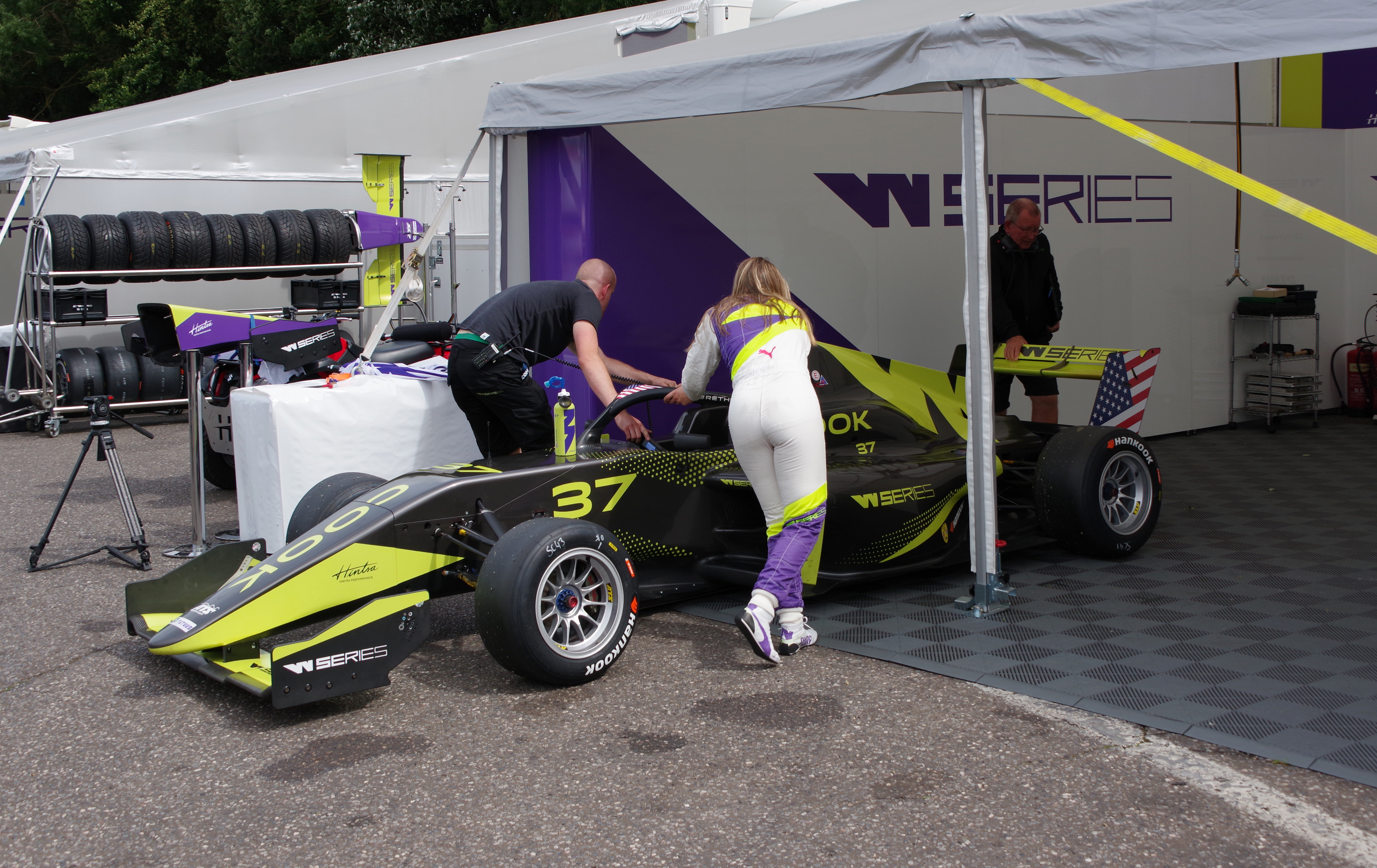 W Series cars and drivers in the paddock at Brands Hatch - Sabré Cook.